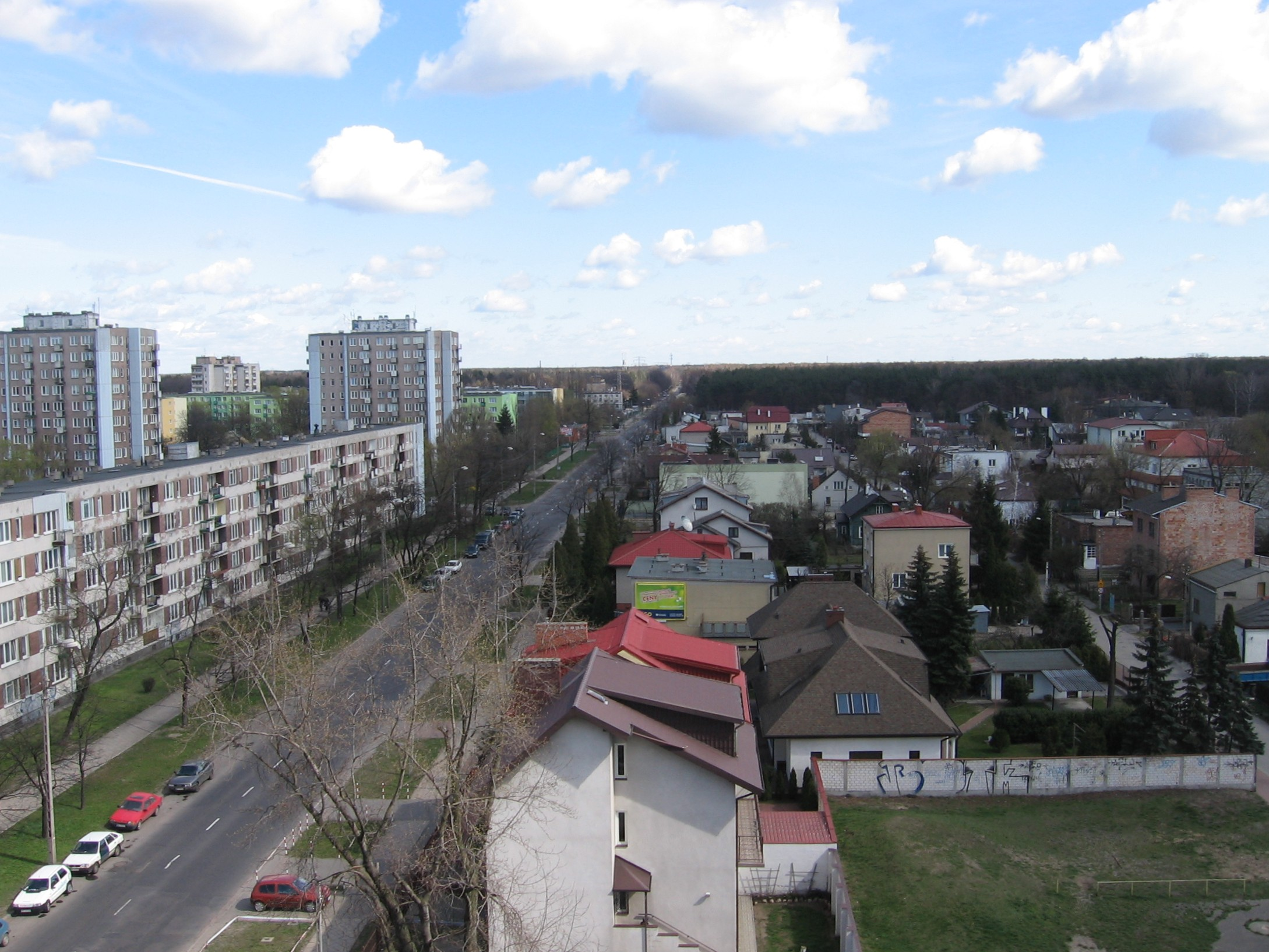 Marysin Wawerski, Warsaw, Poland